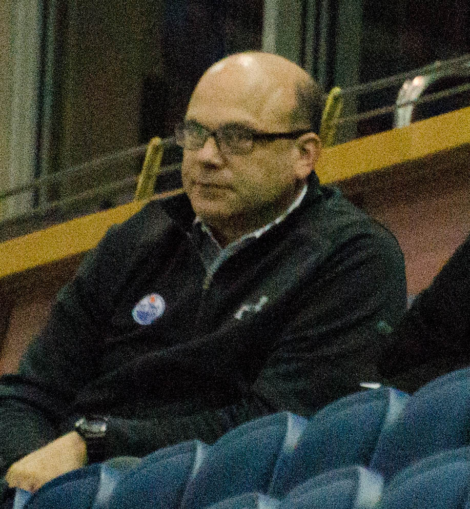 Peter Chiarelli at the 2015 Edmonton Oilers Development Camp, July 4, 2015.